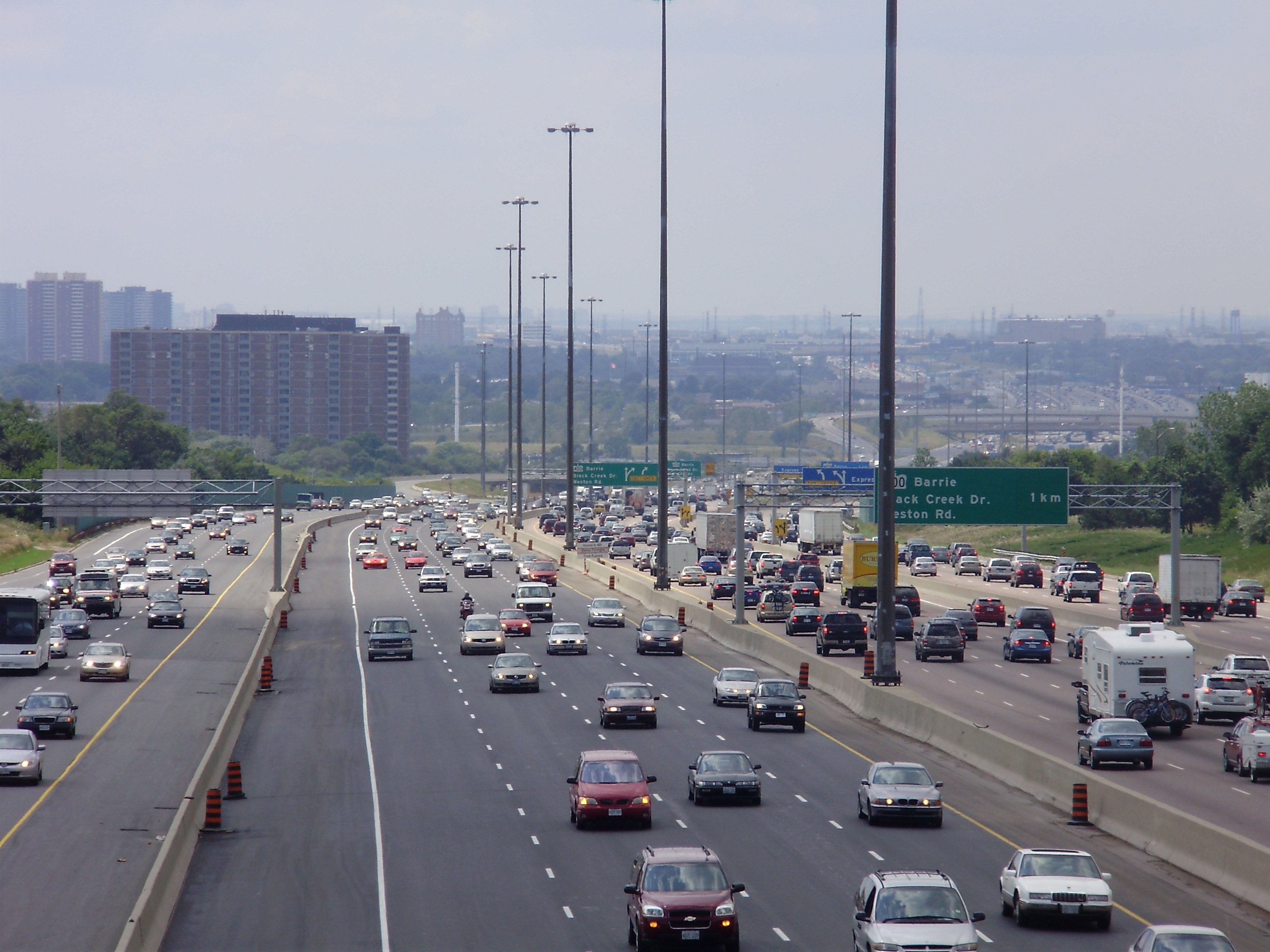 Looking west from the Keele Street overpass along Highway 401 toward the Basketweave in North York, Ontario, Canada.